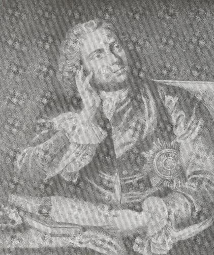 Charles Hanbury Williams British diplomat (18th C.)